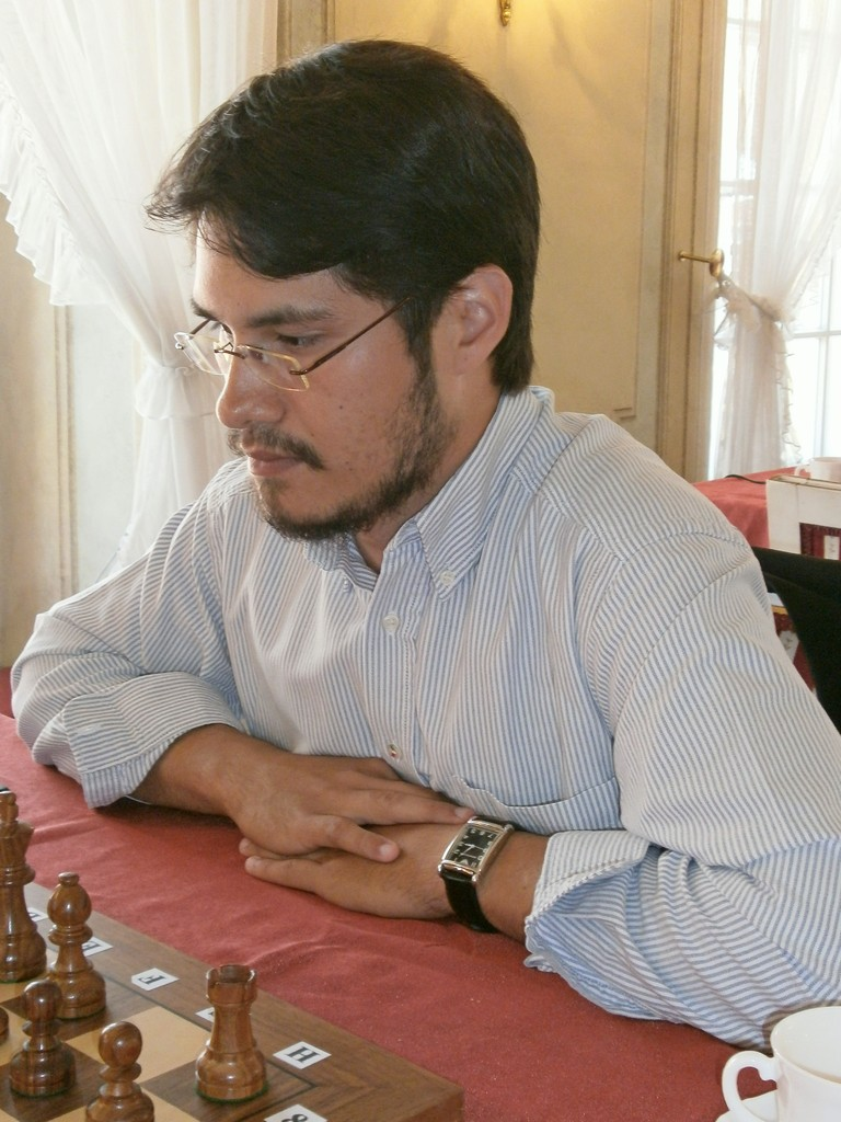 Daniel Semcesen playing in the 5th International GM Tournament "The Lublin Union Memorial" in Lublin (Poland)